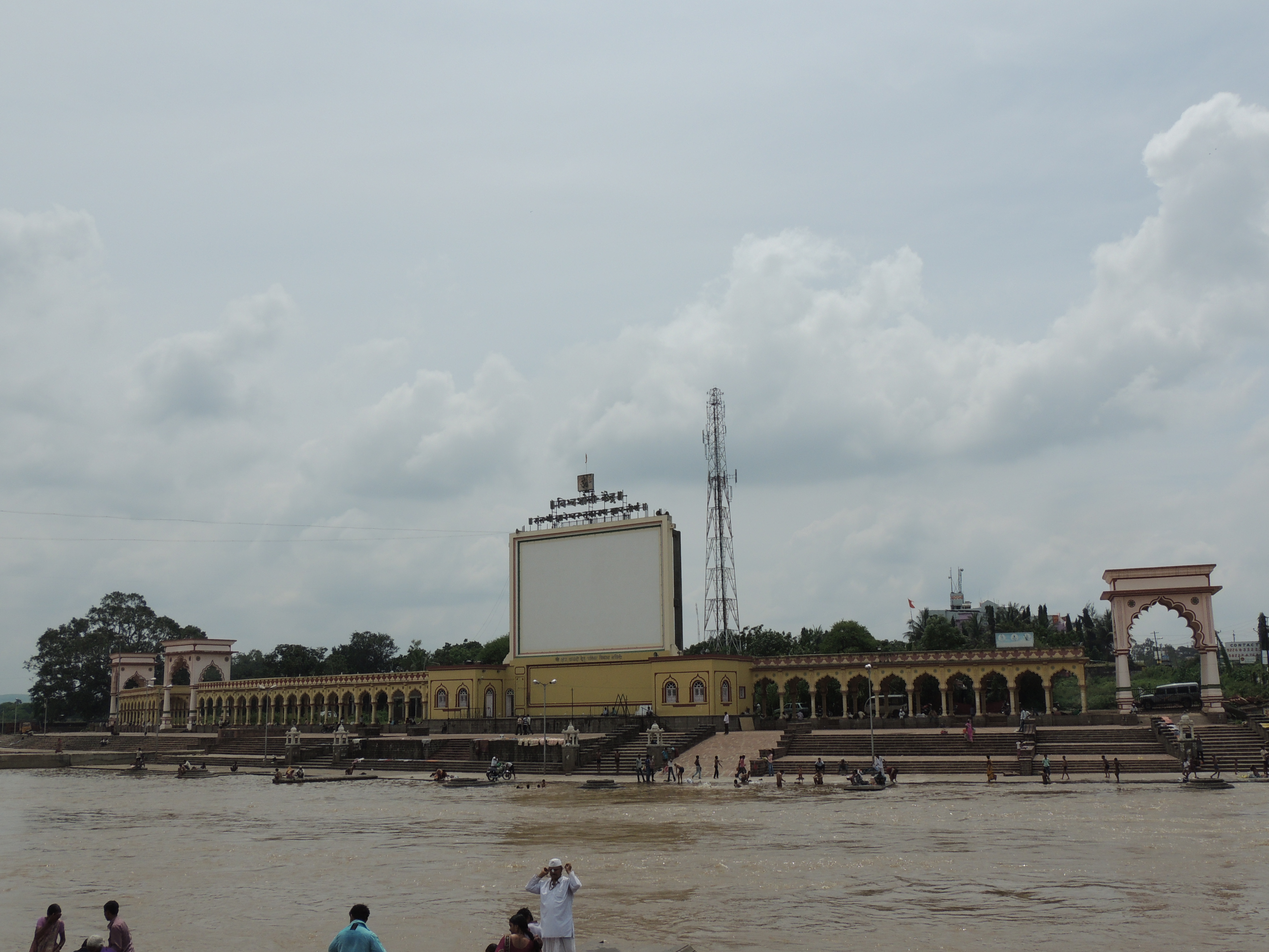 Aalandi entrance im pune